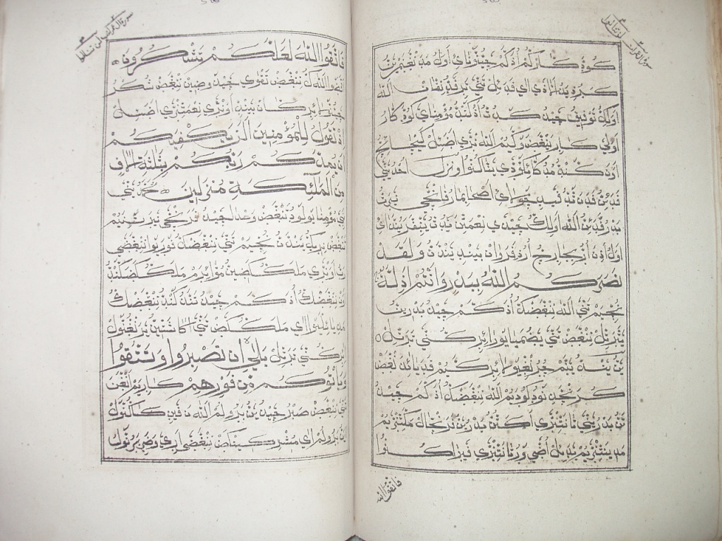 Qur'an, Surah Anfal, with Arabi Malayalam translation.